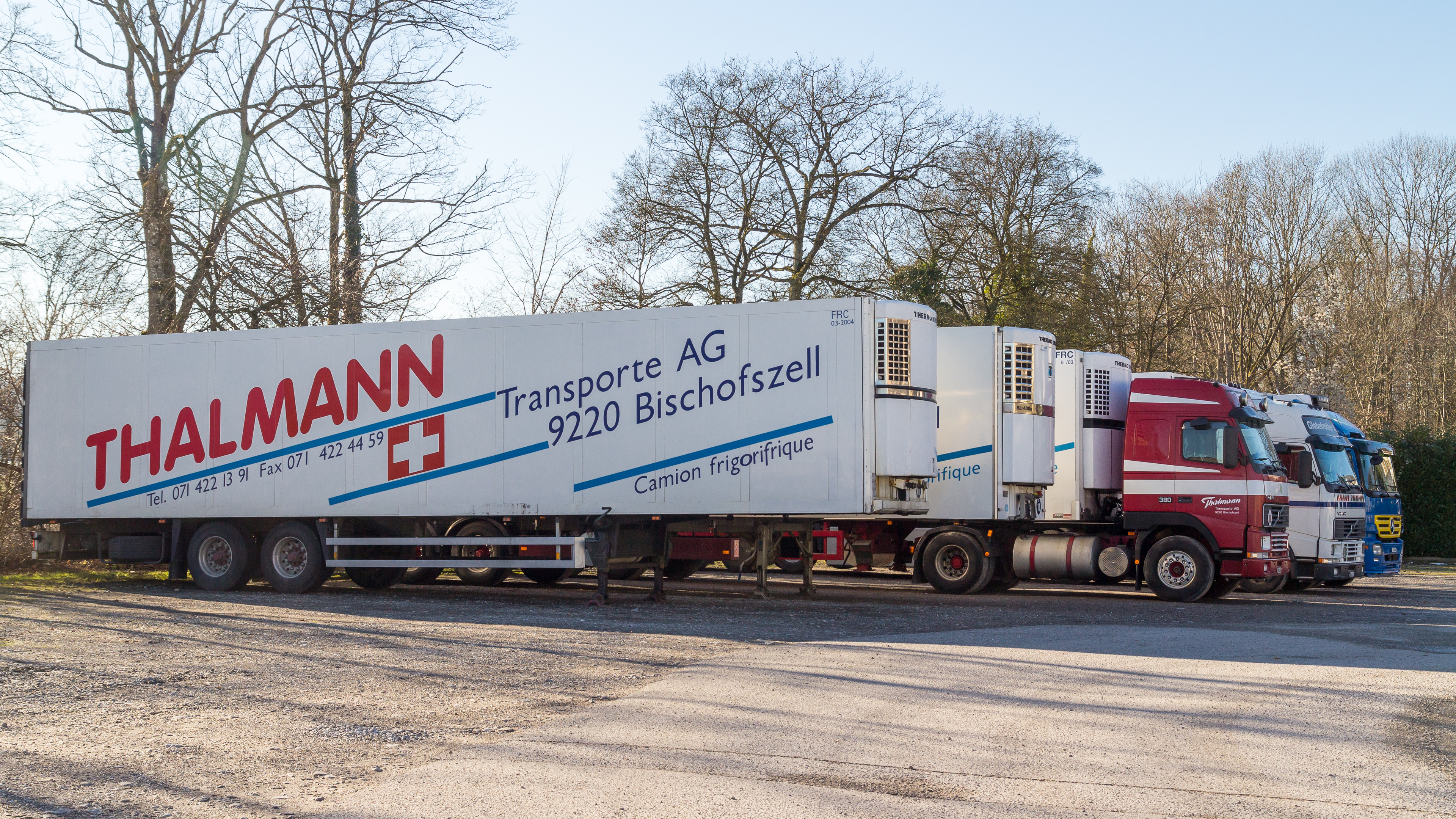 Trucks with Refrigerator Trailers in Switzerland.